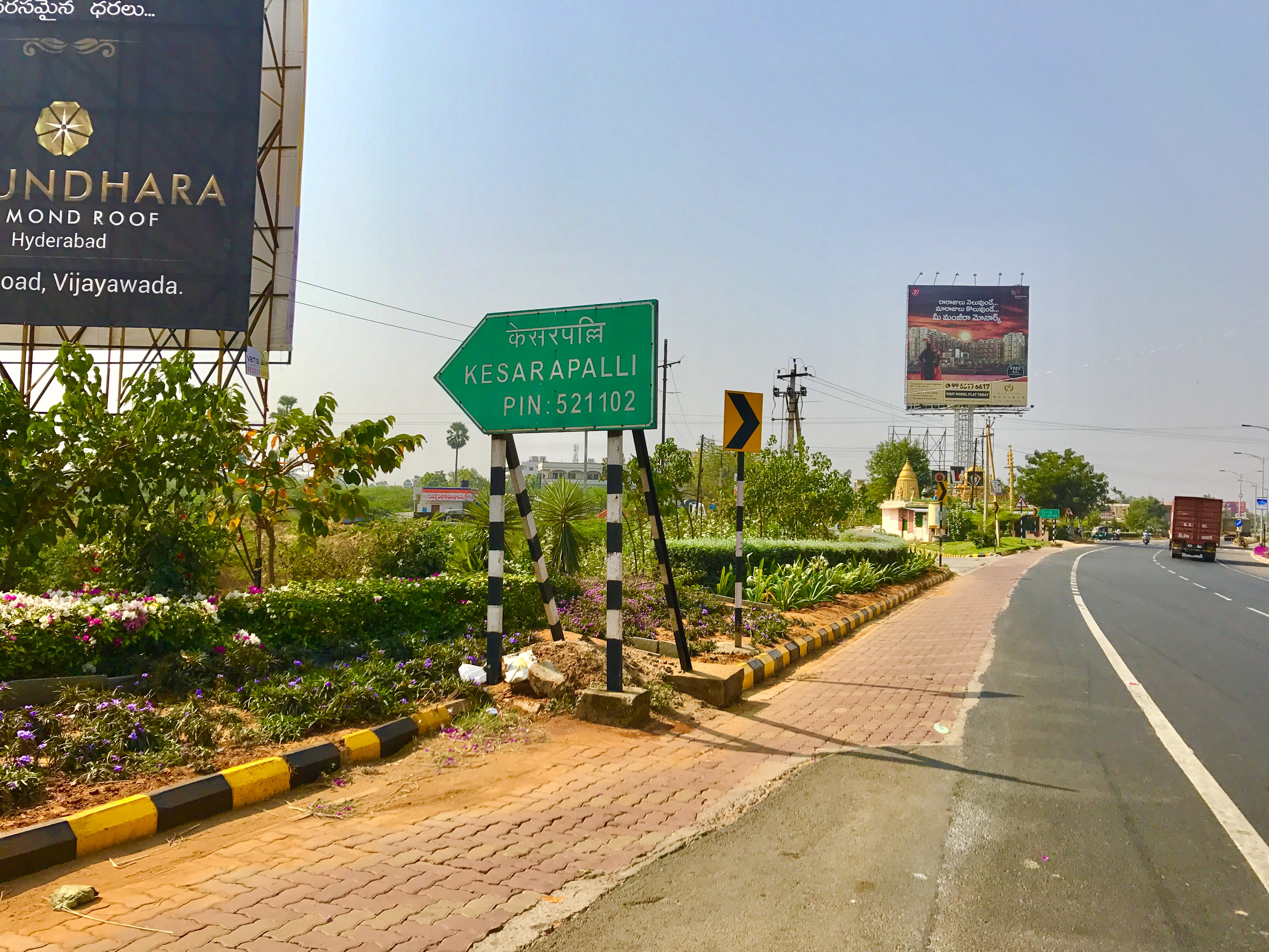 Kesarapalle village board on AH-45